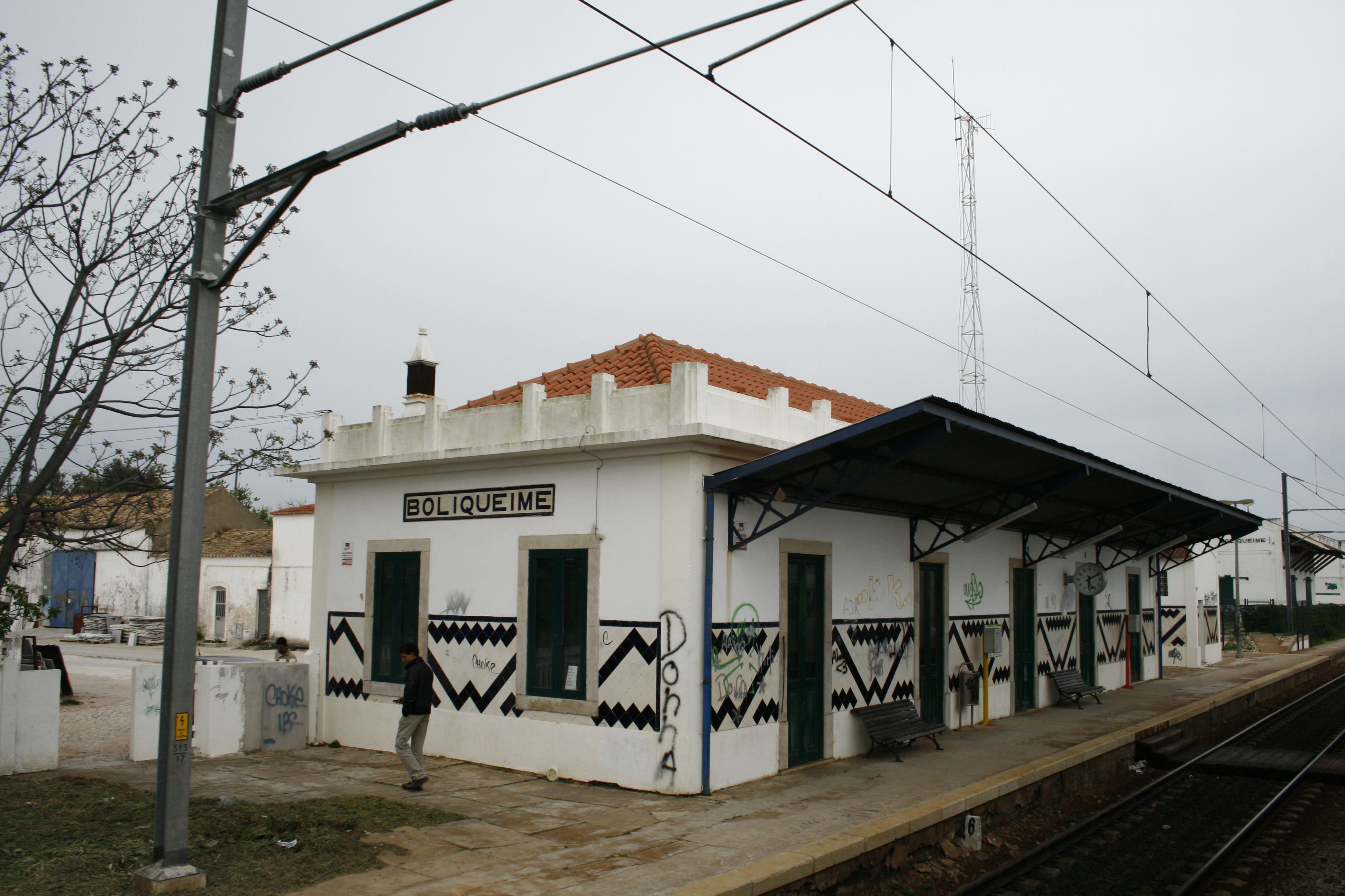 Main building of Boliqueime Train Station, in the Algarve Line, in Portugal.